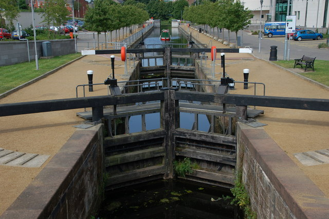 Lisburn lock, disused Lagan Navigation. The Lagan Navigation was formally abandoned in 1954. Most of it is overgrown but the lock at Lisburn has been restored. It is now the starting point for short trips upstream on the River Lagan in the "Lagan Belle" a replica narrow boat. This is the view from the Belfast end.